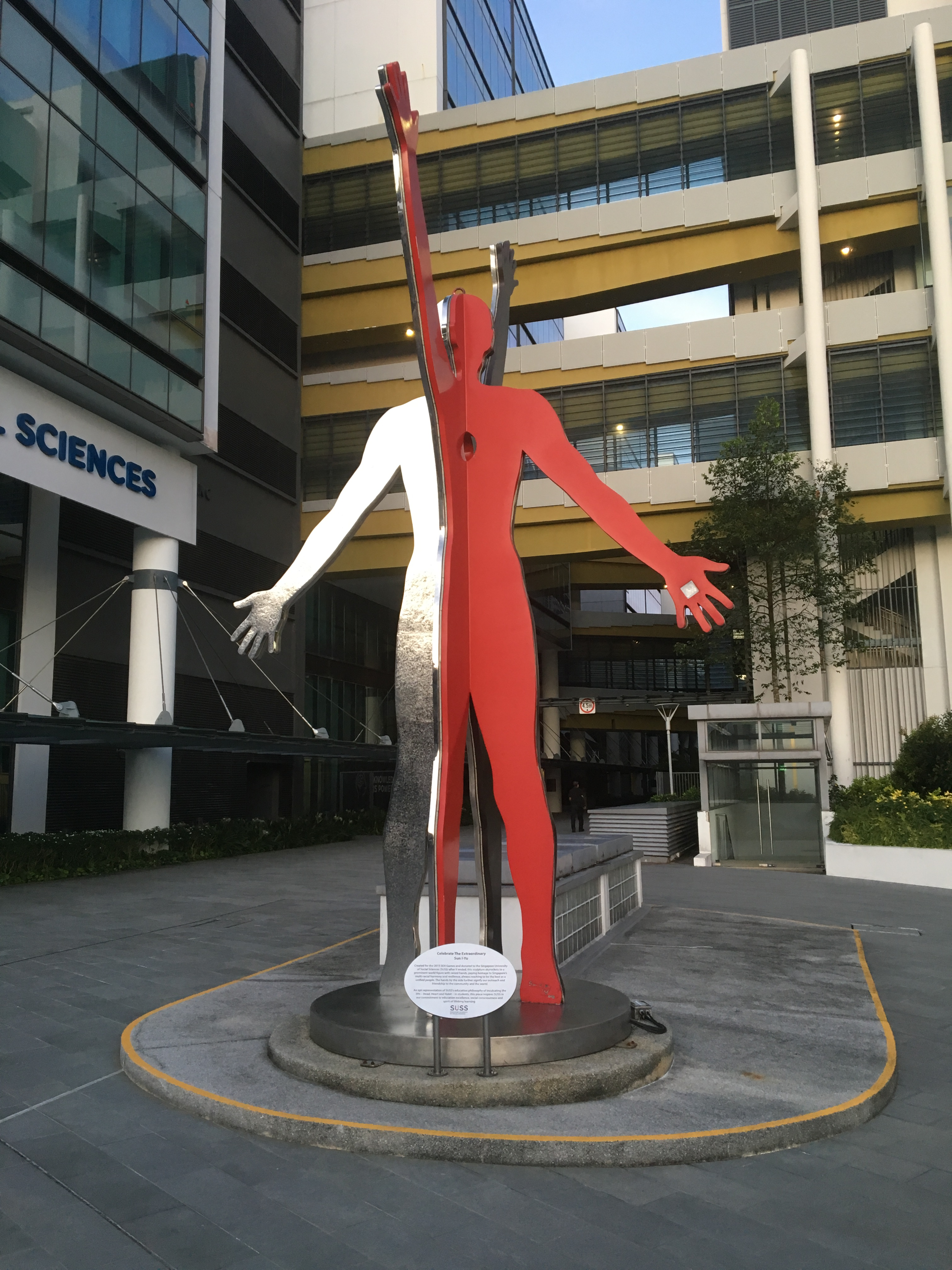 SUSS Head Heart Habit Sculpture